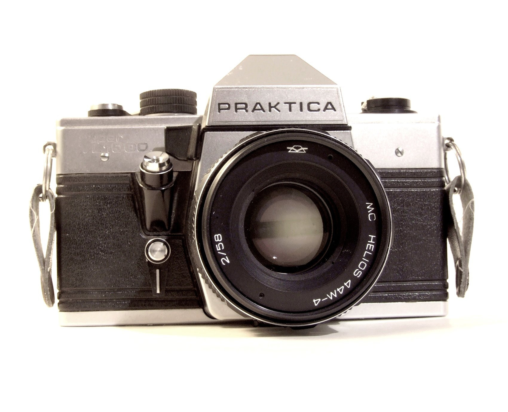 A Praktica Super TL 1000 from 1979 Author: Mohylek 14:27, 9 March 2007 (UTC)